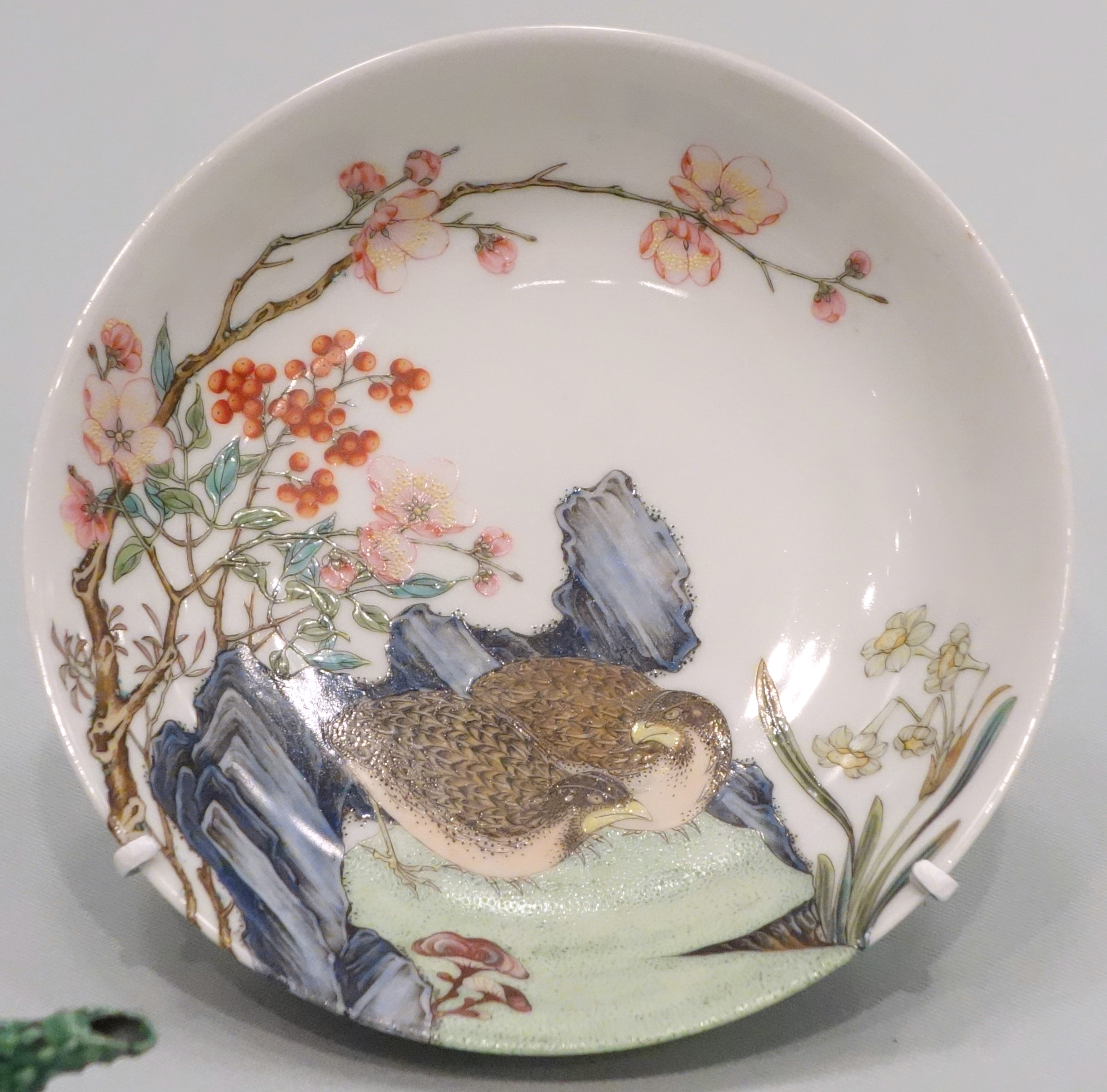 Exhibit in the Asian Art Museum of San Francisco, San Francisco, California, USA. This artwork is in the public domain because the artist died more than 70 years ago.